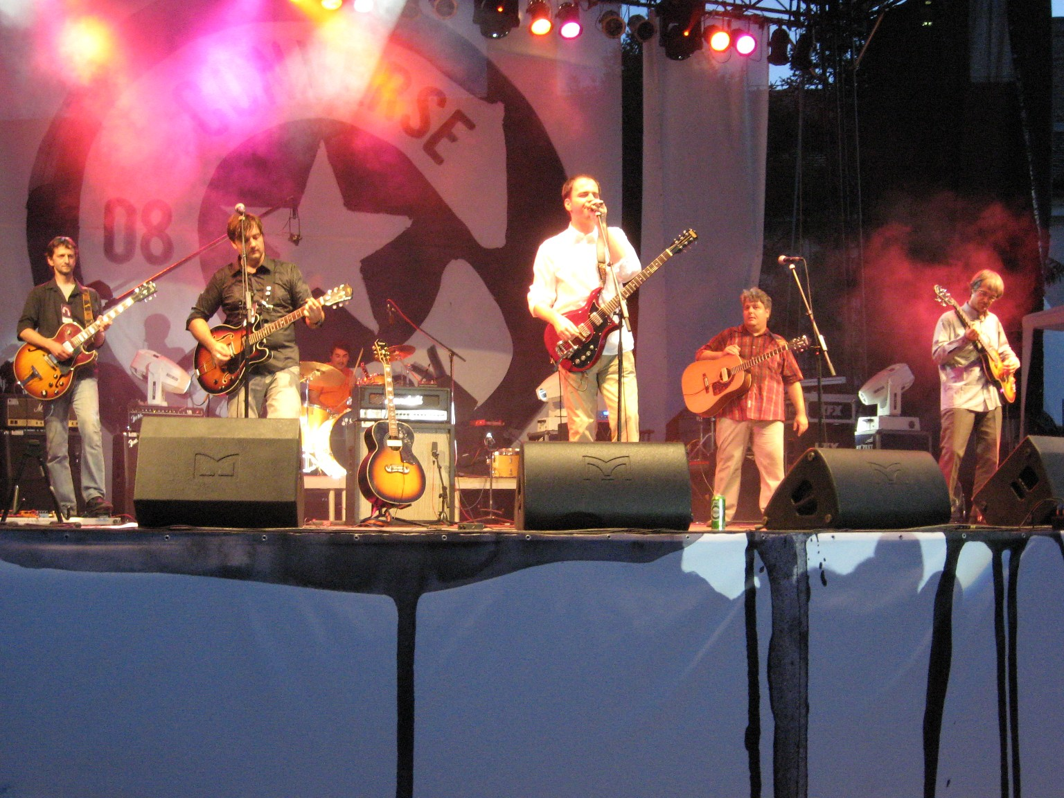 Photo of Serbian pop-rock band Eva Braun at Exit Festival in Novi Sad. From left to right: Zvonko Stojkov, Milan Glavaški, Ljubomir Rajić, Goran Vasović, Petar Dolinka, Goran Obradović